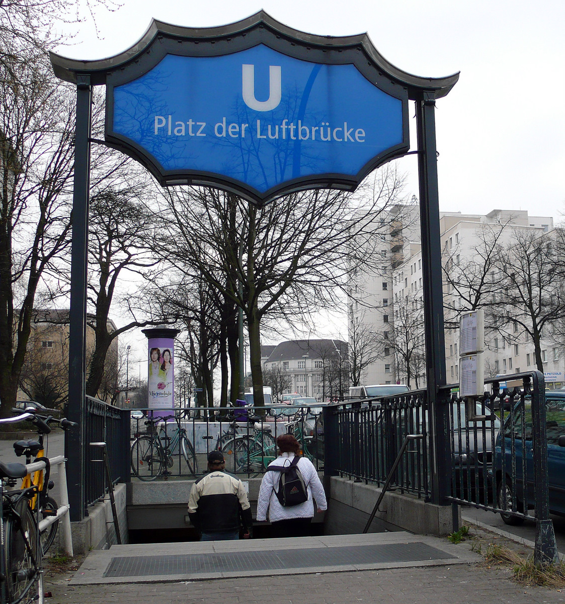 Subway Pl-der Luftbrücke Entrance